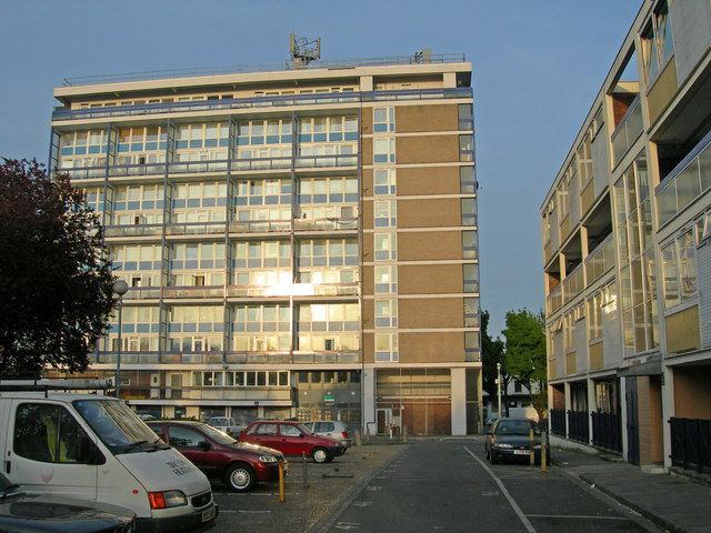 Bemerton Estate, Kings Cross Looking towards Orkney House, with Dunoon House on the right. This section of the estate is just off Copenhagen Street, N1.